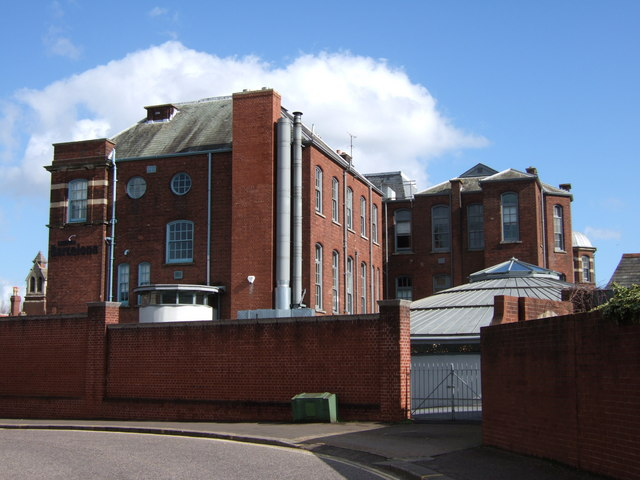 Hotel Barcelona, Exeter. The West of England Eye Infirmary transformed into an award-winning hotel. A less attractive foreground than that obtained on the far side of the building - see 283434. The round roof of the Cafe Paradiso can be seen on the right. Detailed architectural description at . The road in the foreground is part of the complex one-way system at 338469.